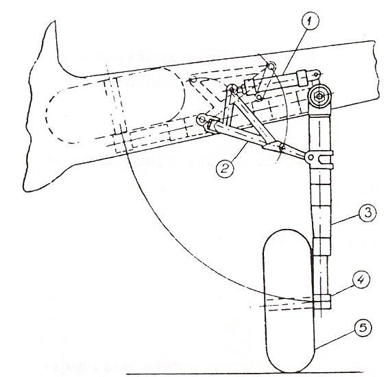 Landing gear, schematic view